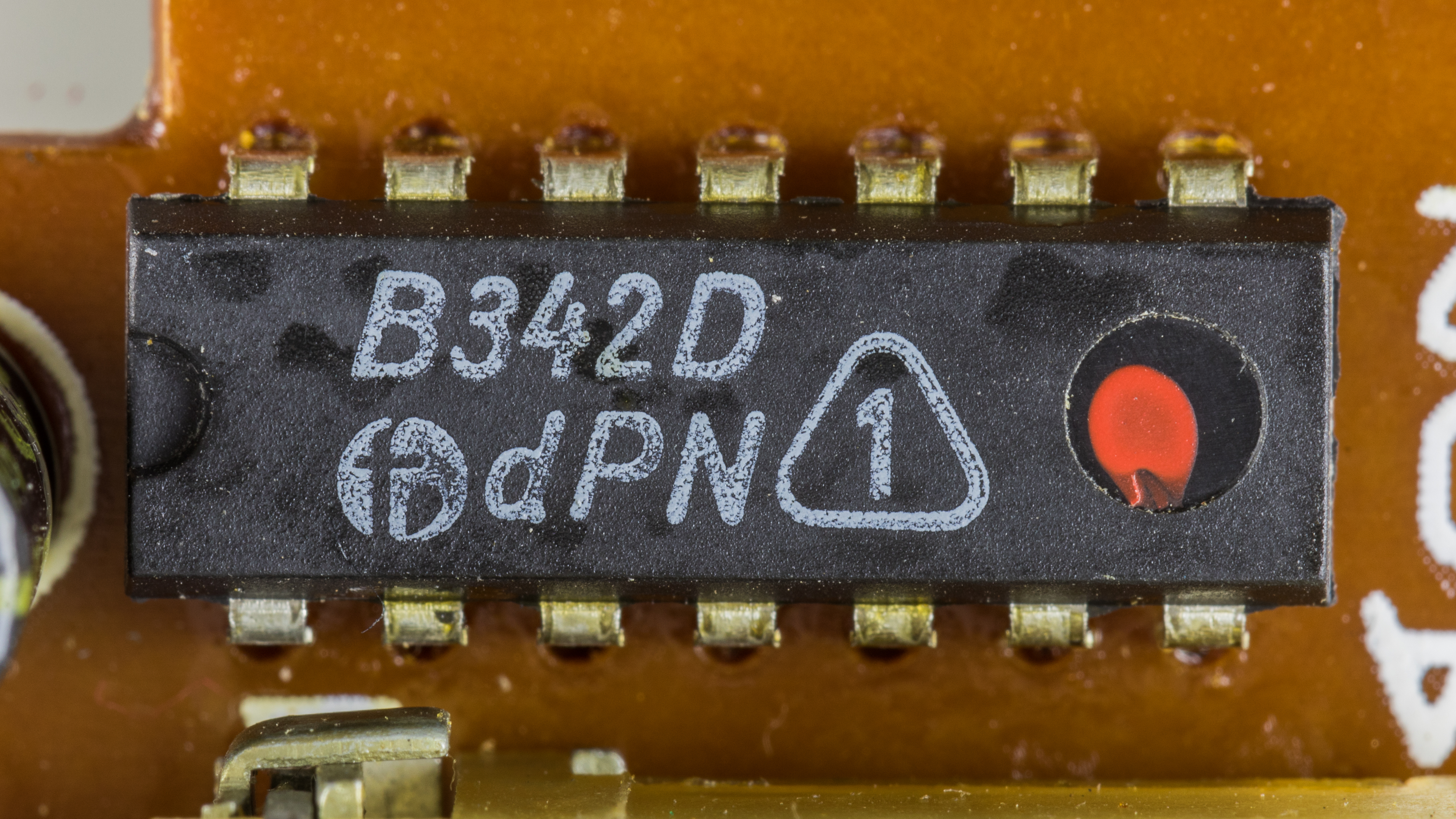 Bruns Monocord-6020 - controller board - VEB Halbleiterwerk Frankfurt B342D - transistor array